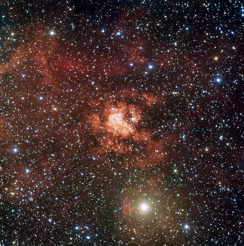 This image, based on data obtained with the Wide Field Imager (WFI) camera attached to the 2.2-m Max-Planck/ESO telescope through four different filters (B, V, R, and H-alpha), shows the amazing intricacies of the vast stellar nursery Gum 29. At its centre lies the cluster of young stars Westerlund 2. One object at the bottom of the cluster is in fact a system of two of most massive stars known to astronomers.